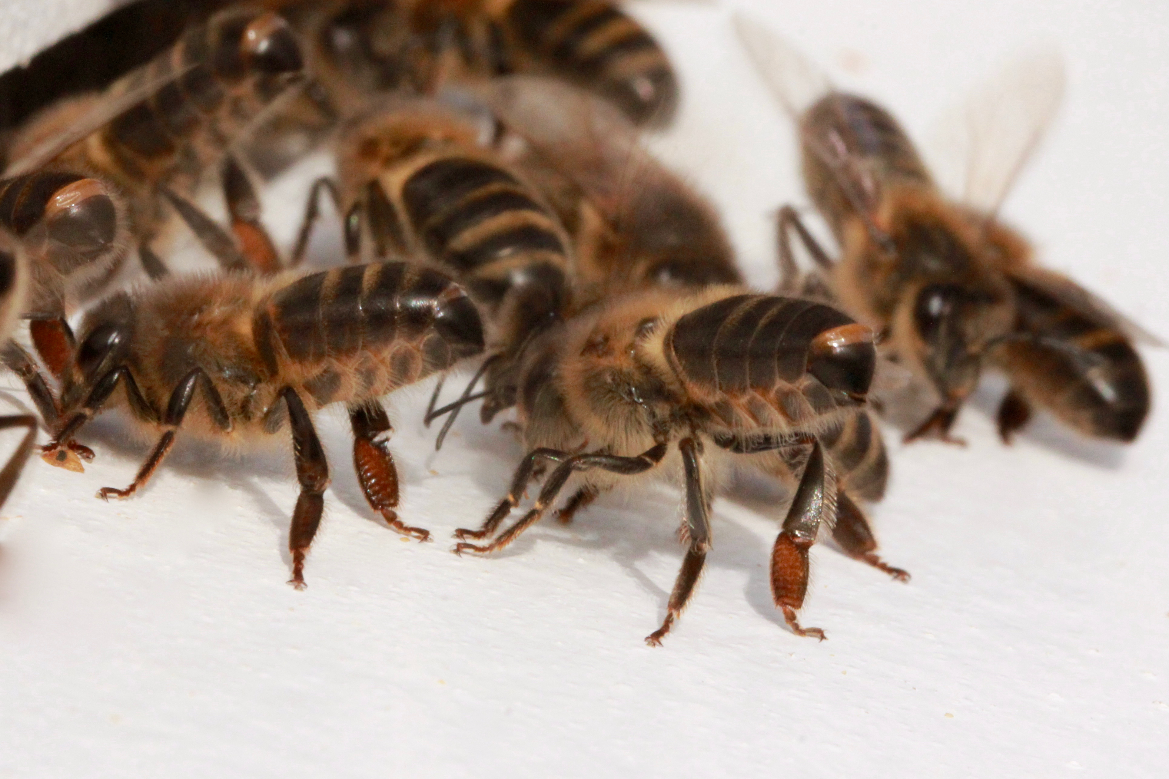 European dark bees (Apis mellifera mellifera) before the hive entrance. Clearly visible are the wide, black abdomen with the narrow felt stripes and the blunt end.